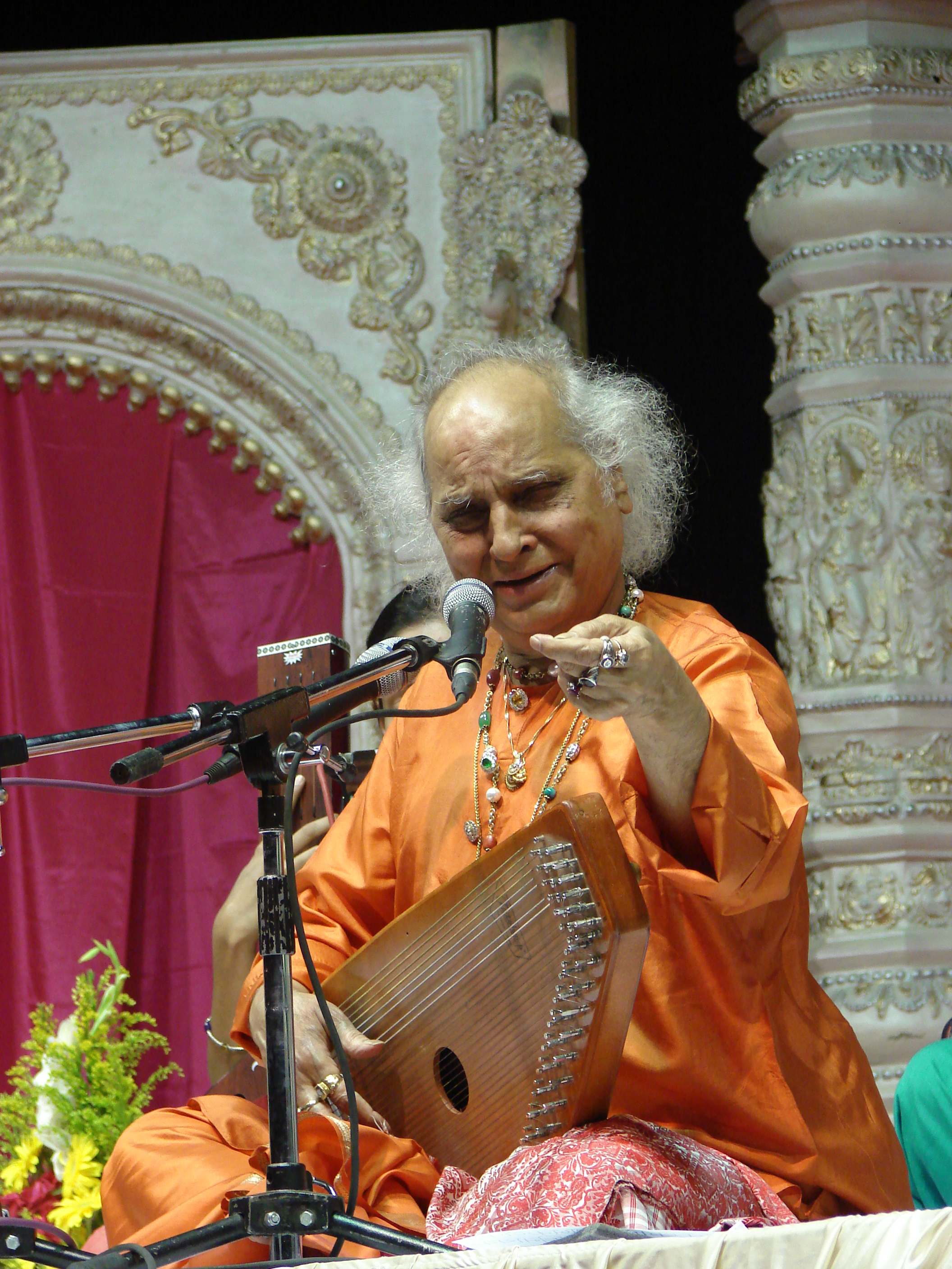 Pandit Jasraj